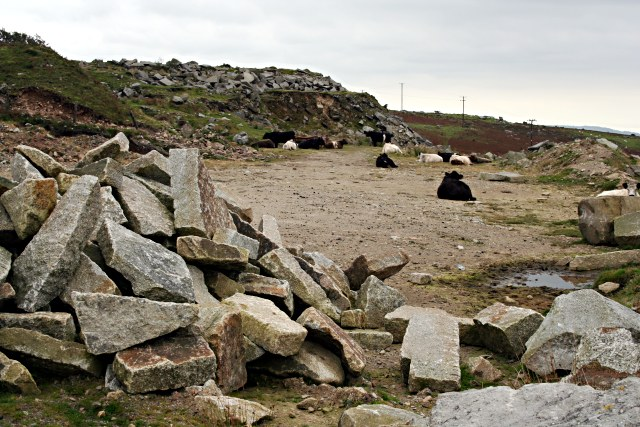 Quarry Waste and Cattle on Caradon Hill The cattle seem to find this disused quarry a good place to chew the cud.